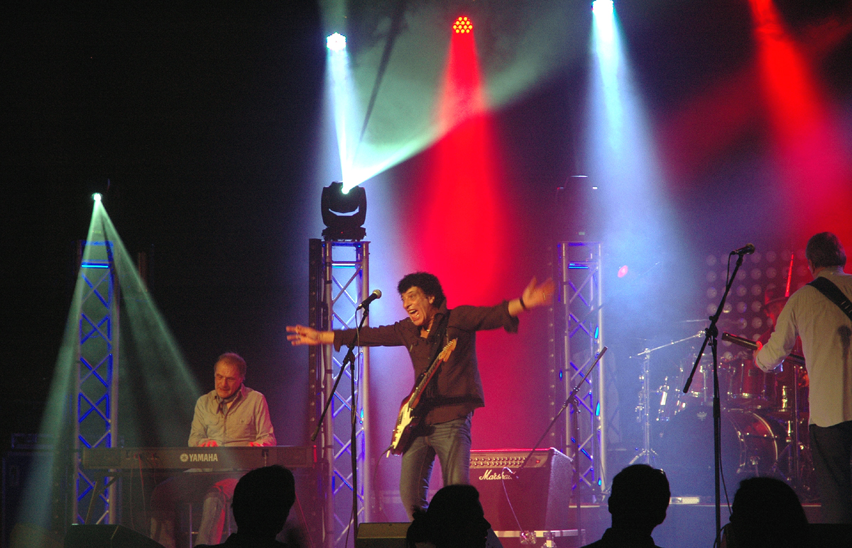 Mungo Jerry live at Zürisee-Festival in Switzerland 2013, Erlenbach